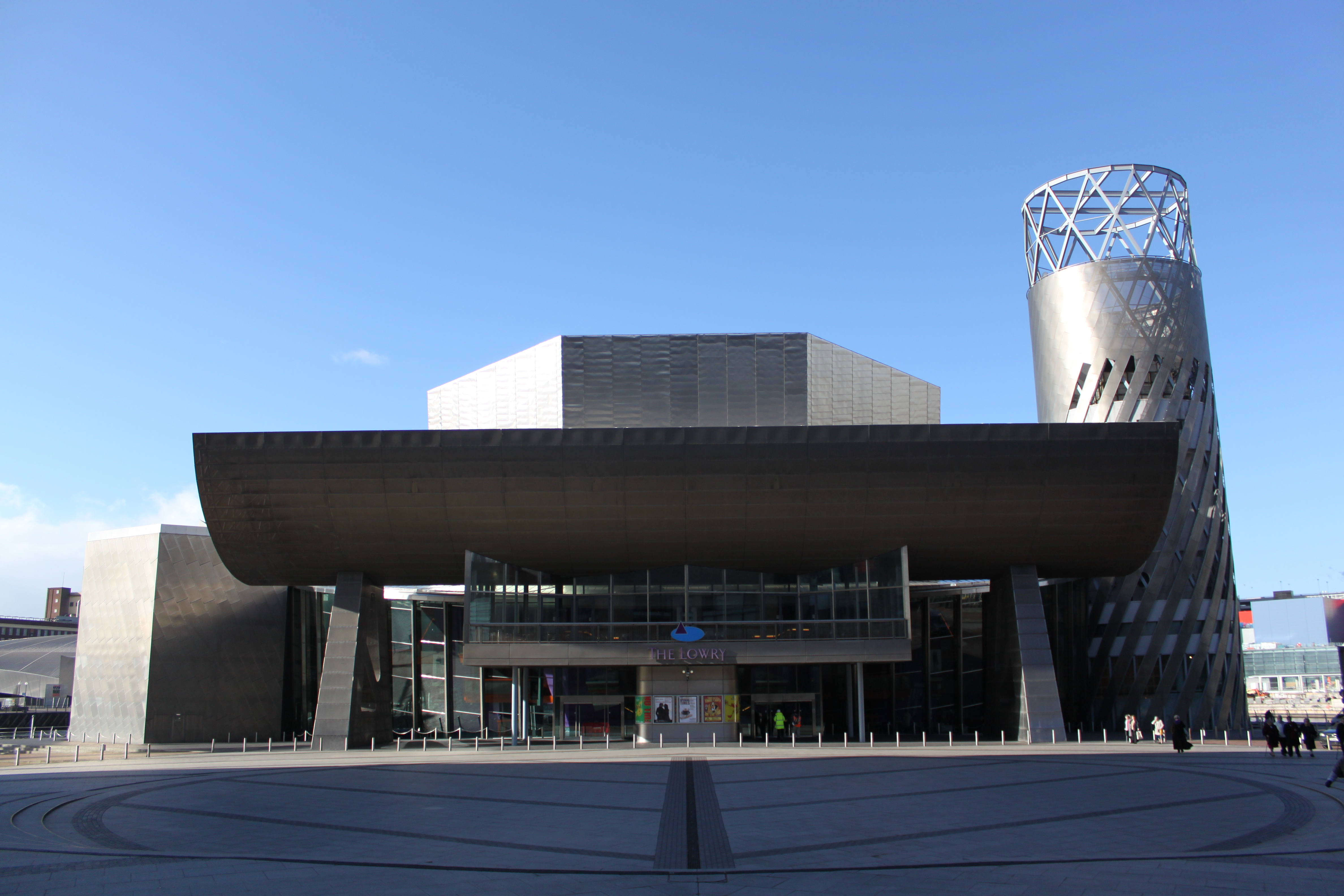 The Lowry Arts & Entertainment Centre's main entrance in Salford Quays, Greater Manchester